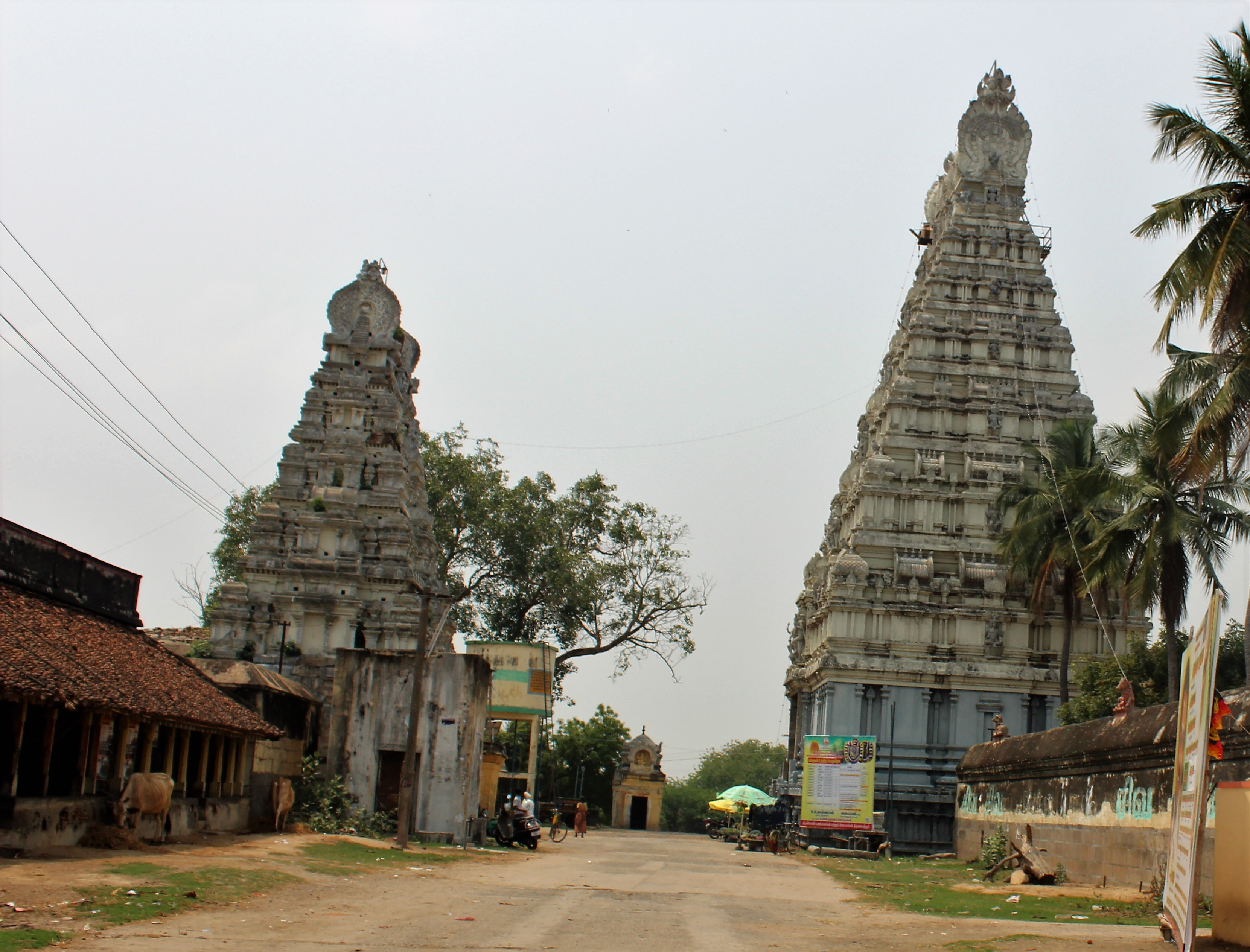 Abirameswarar temple, Thiruvamathur